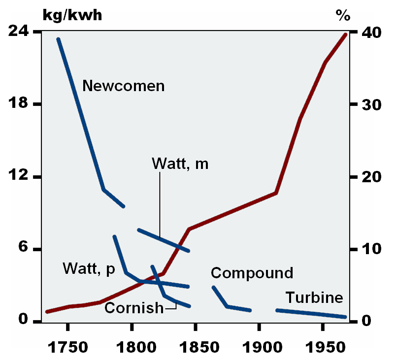 The effect of technological progress on energy efficiency and thus the consumption of energy. Blue curves show the consumption of fuel (coal kg/kwh) after different innovations, red curve shows maximum thermal efficiency (%). "Watt, p" stands for "Watt, pump", "Watt, m" for "Watt, mill". X axis shows years. Source: Shell (2001): Energy Neeeds, Choises and Possibilities - Scenarios to 2050.